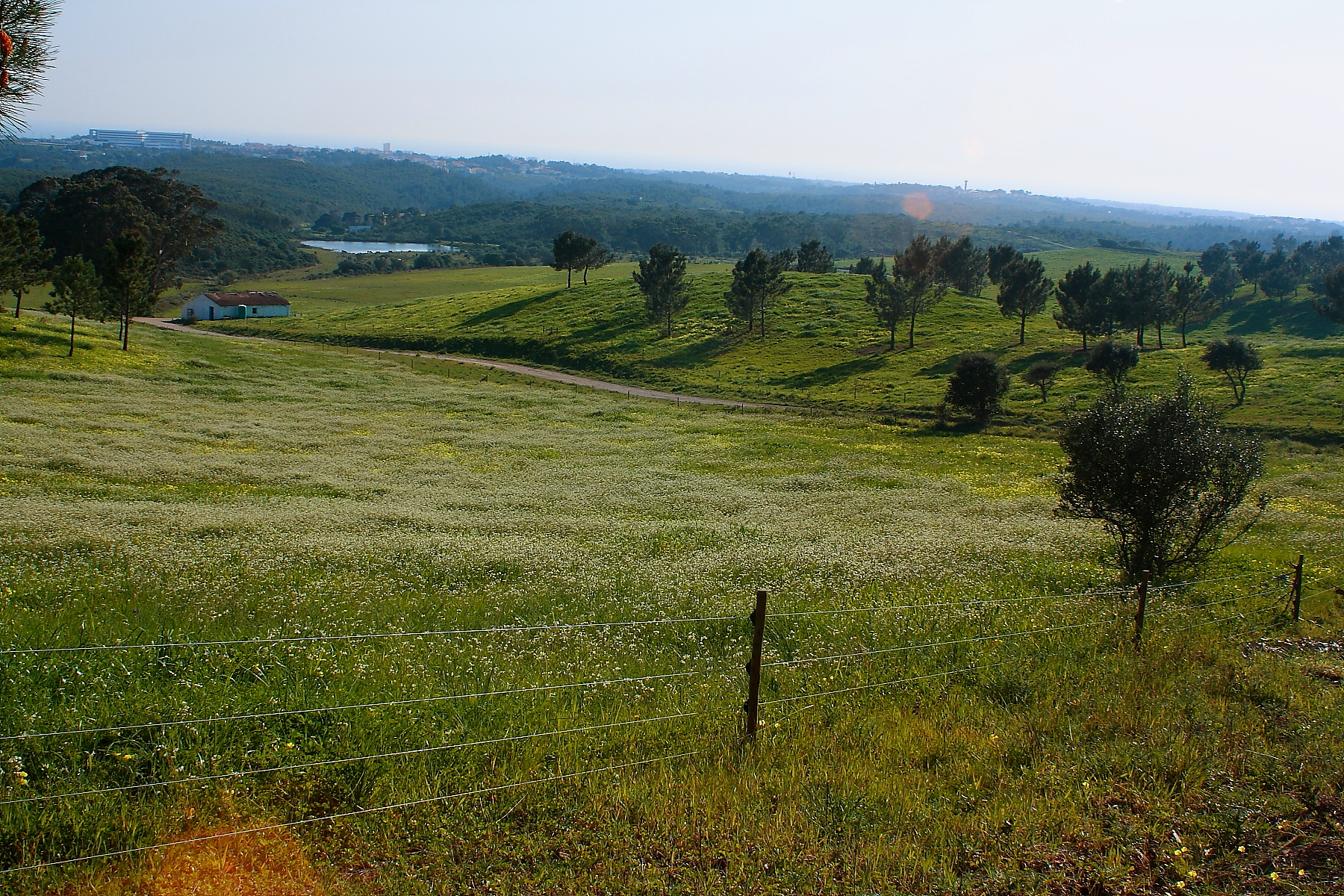 An old farm, converted into a Nature Park. A natural, cultural and historical heritage area, in the transition between the urban landscape and the mountain. This is a photography of a Site of Community Importance in Portugal with the ID: PTCON0008. Natura2000 entry, EEA entry